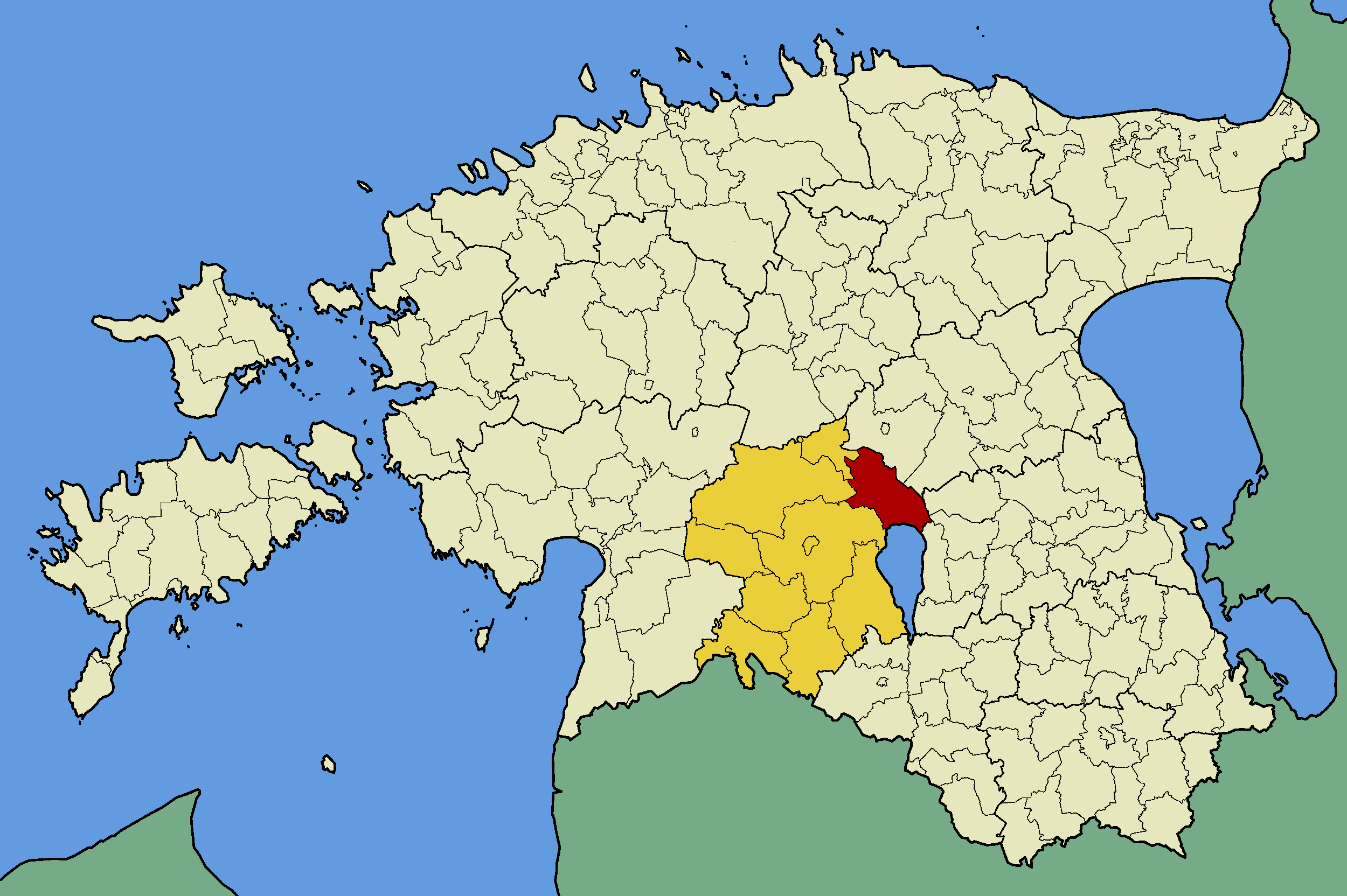 Map of Estonia with borders of municipalities (parishes). Viljandi county and Kolga-Jaani municipality emphasized.